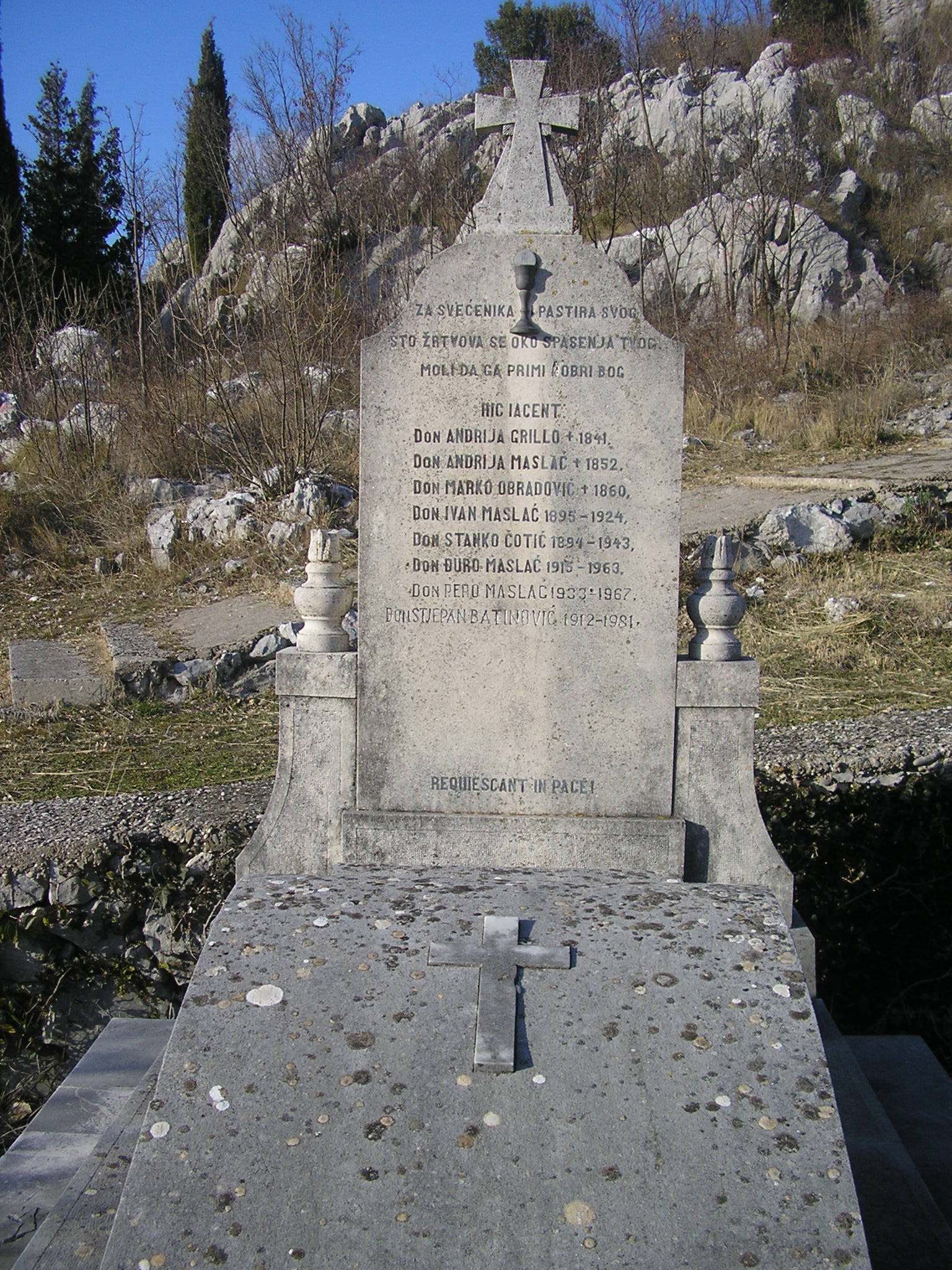 Priests tomb